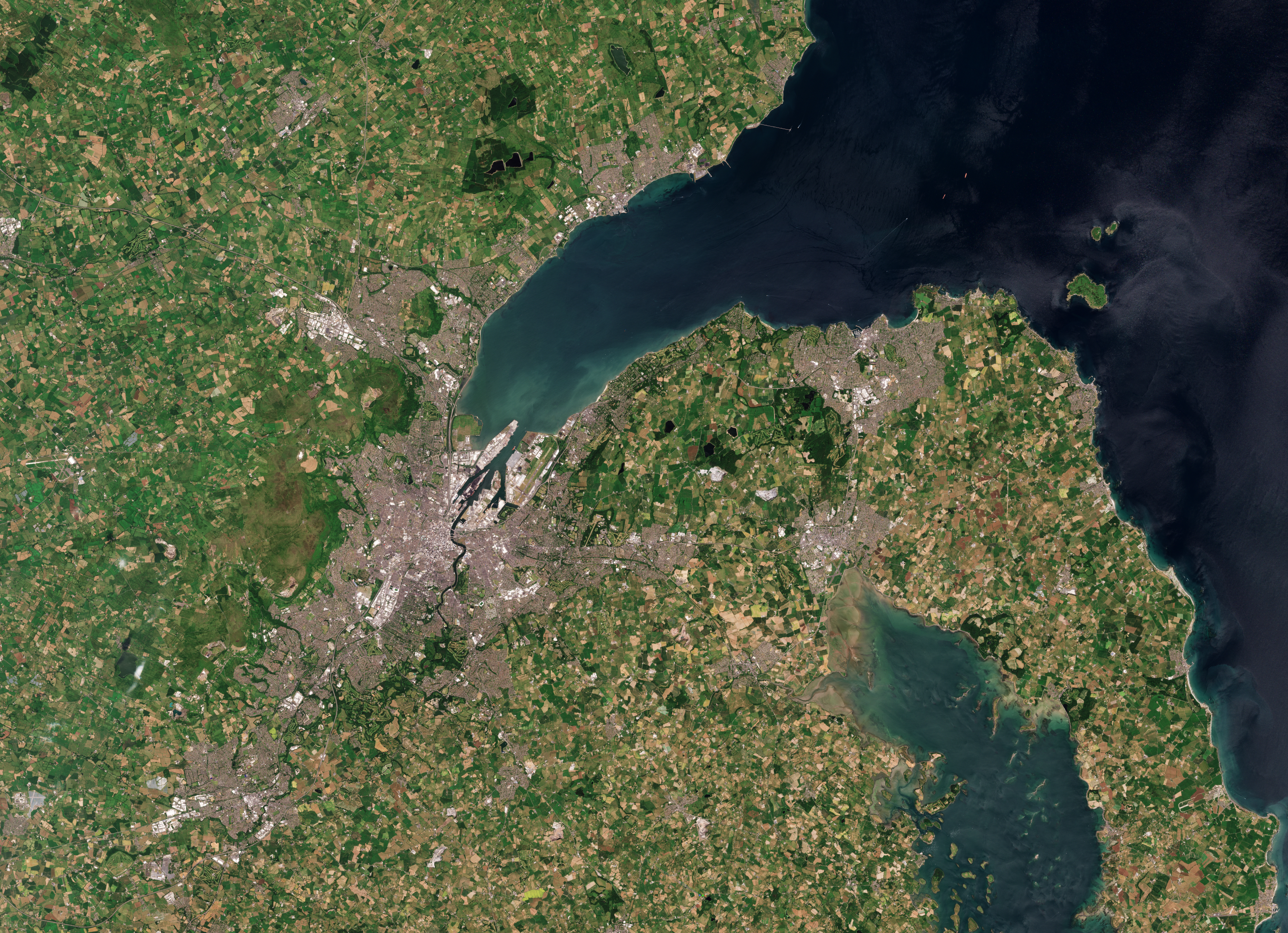 Date: 2018-06-30 Sensor: MSI on Sentinel-2B Resolution: 10m RGB Composites: True color, Band 4-3-2